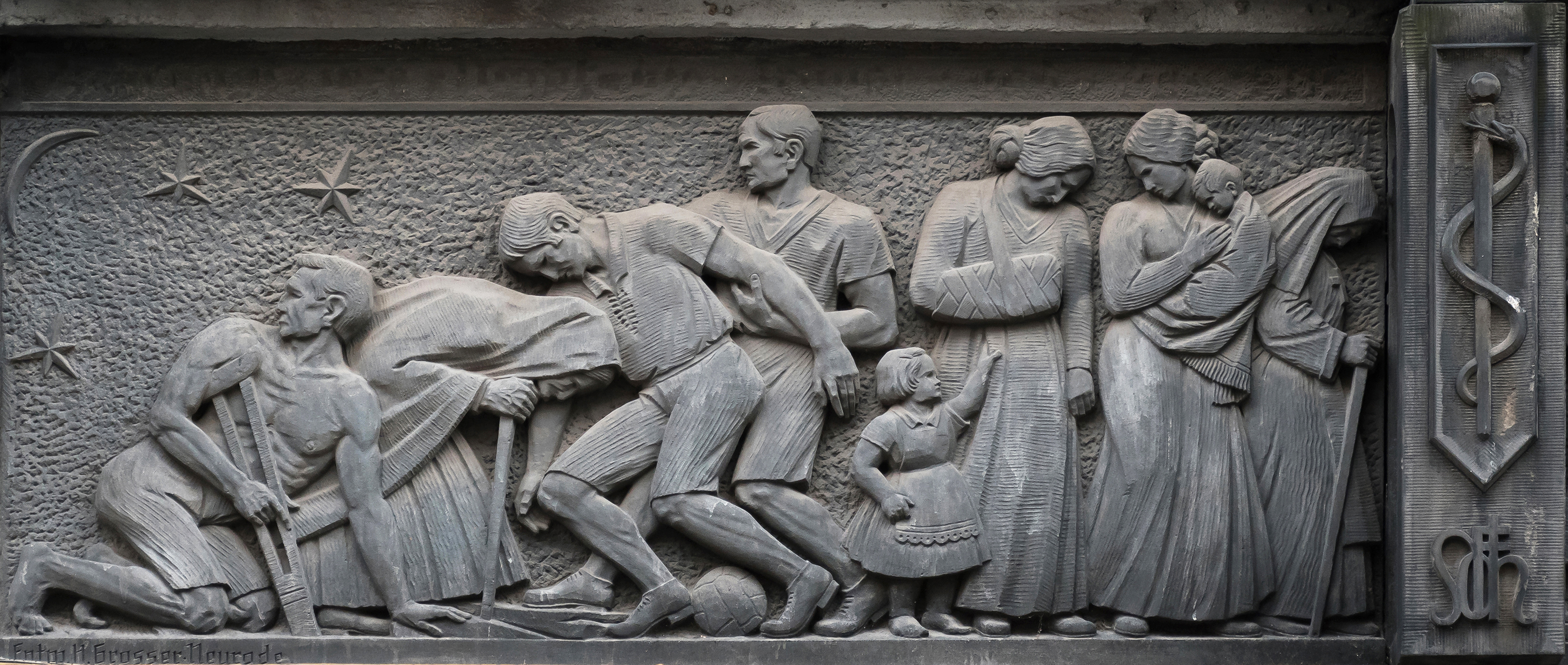 5 Piastów Street in Nowa Ruda